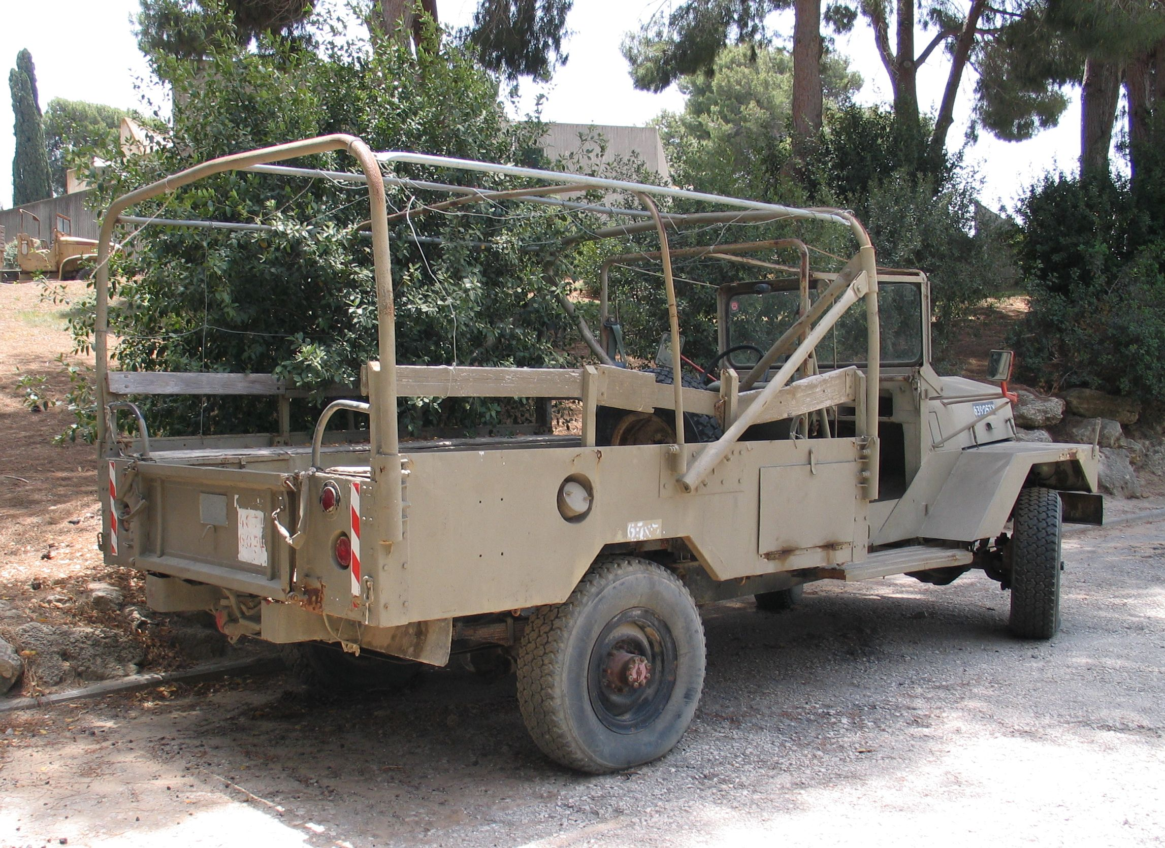 M-325 Commandcar Nun-nun light truck in kibbutz Yad Mordechai.